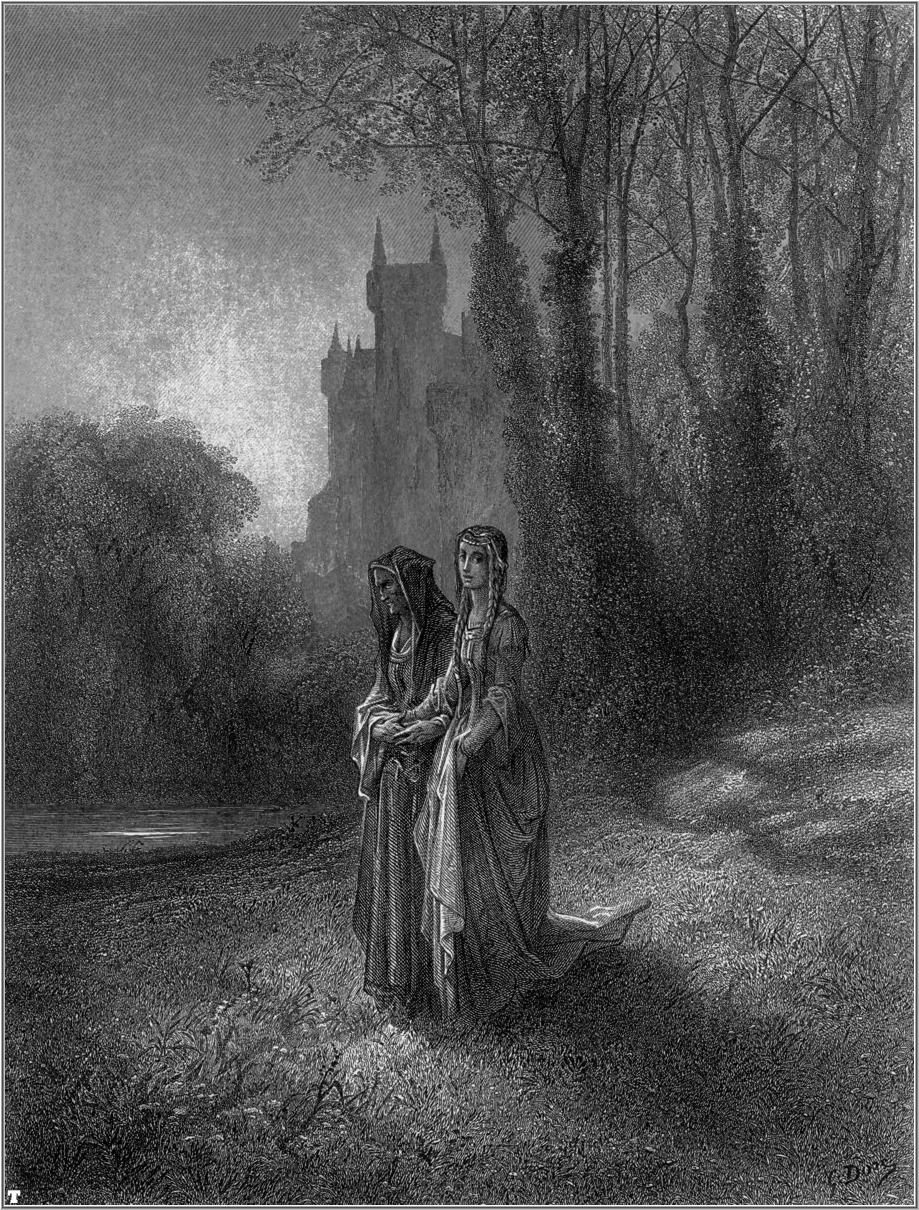 Plate II. "Enid and the Countess"